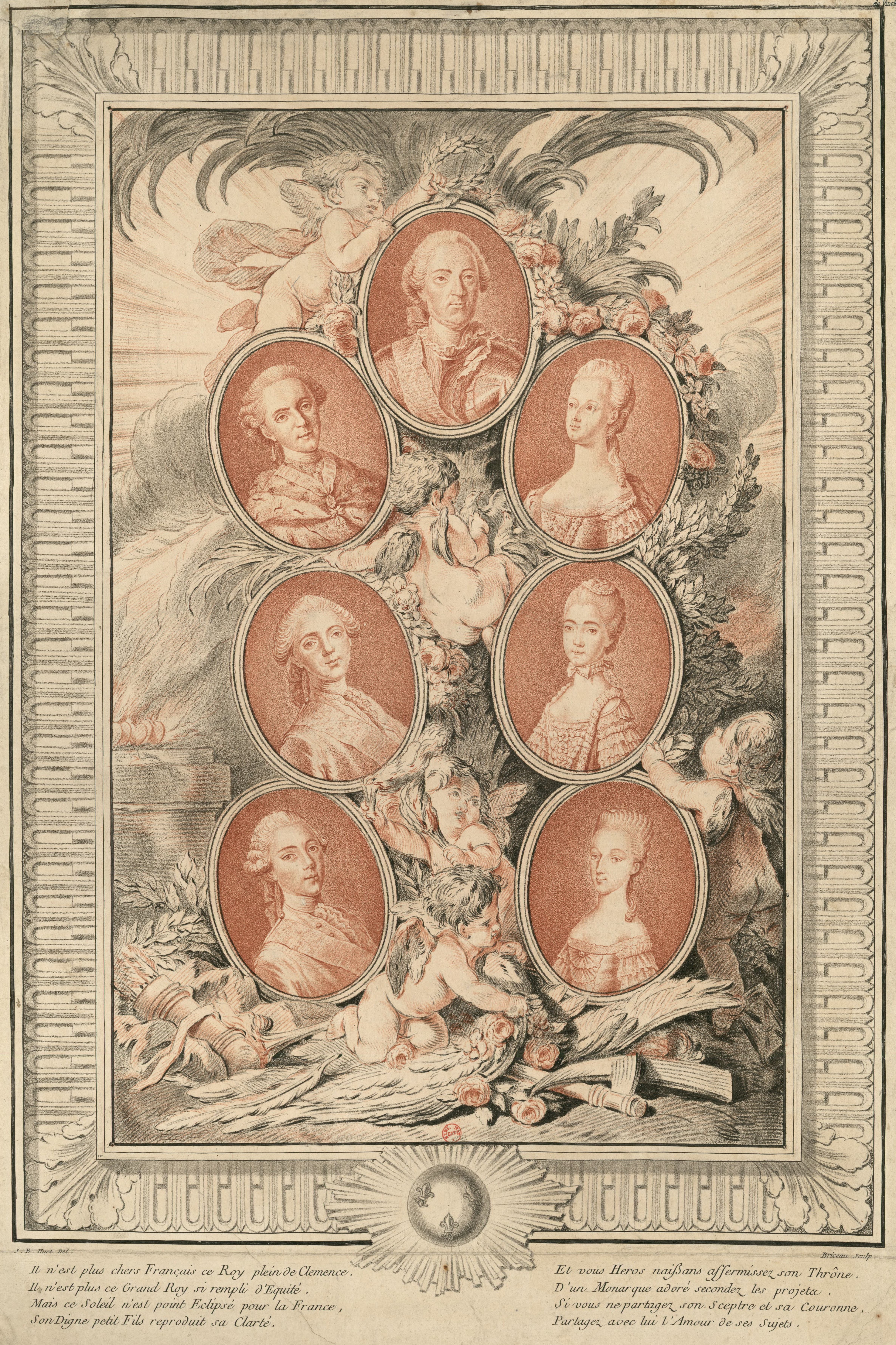 Grandsons of Louis XV and their wives